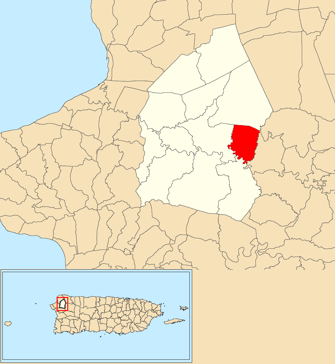 Capá, Moca, Puerto Rico locator map